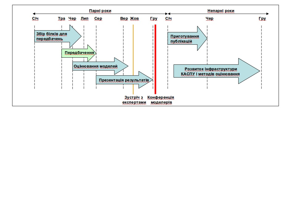 Schematics of CASP experiment (with Ukrainian text)